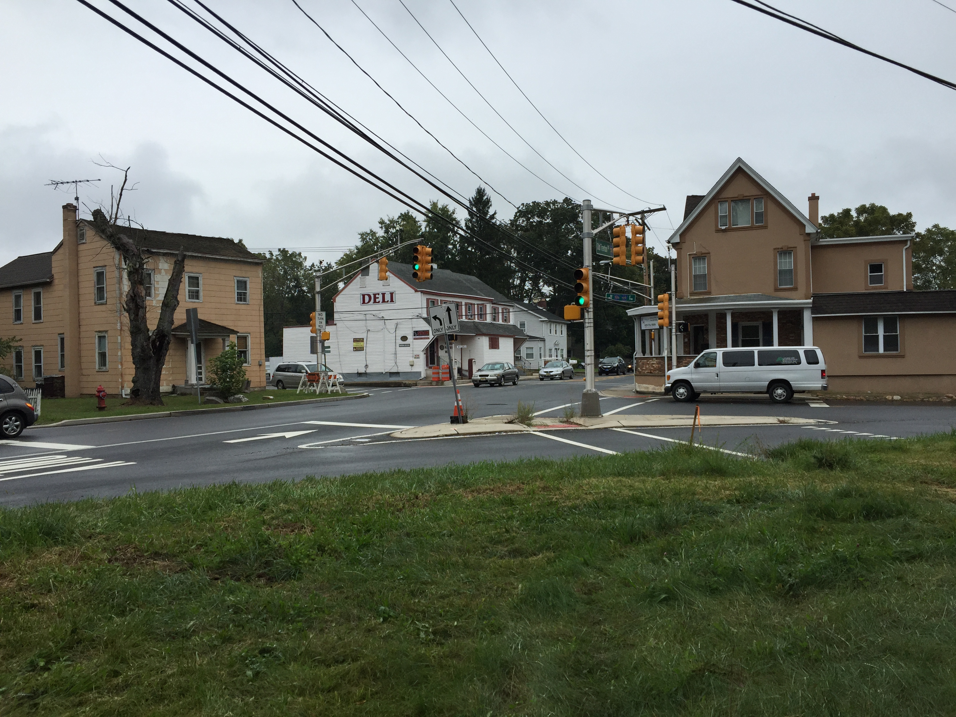 The intersection of Old Trenton Road (Mercer County Route 526 and Mercer County Route 535), Edinburg-Windsor Road (Mercer County Route 641) and Edinburg Road (Mercer County Route 526) in the Edinburg section of West Windsor Township, Mercer County, New Jersey